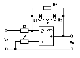 Limiteur_d'amplitude_à_amplificateur_opérationnel